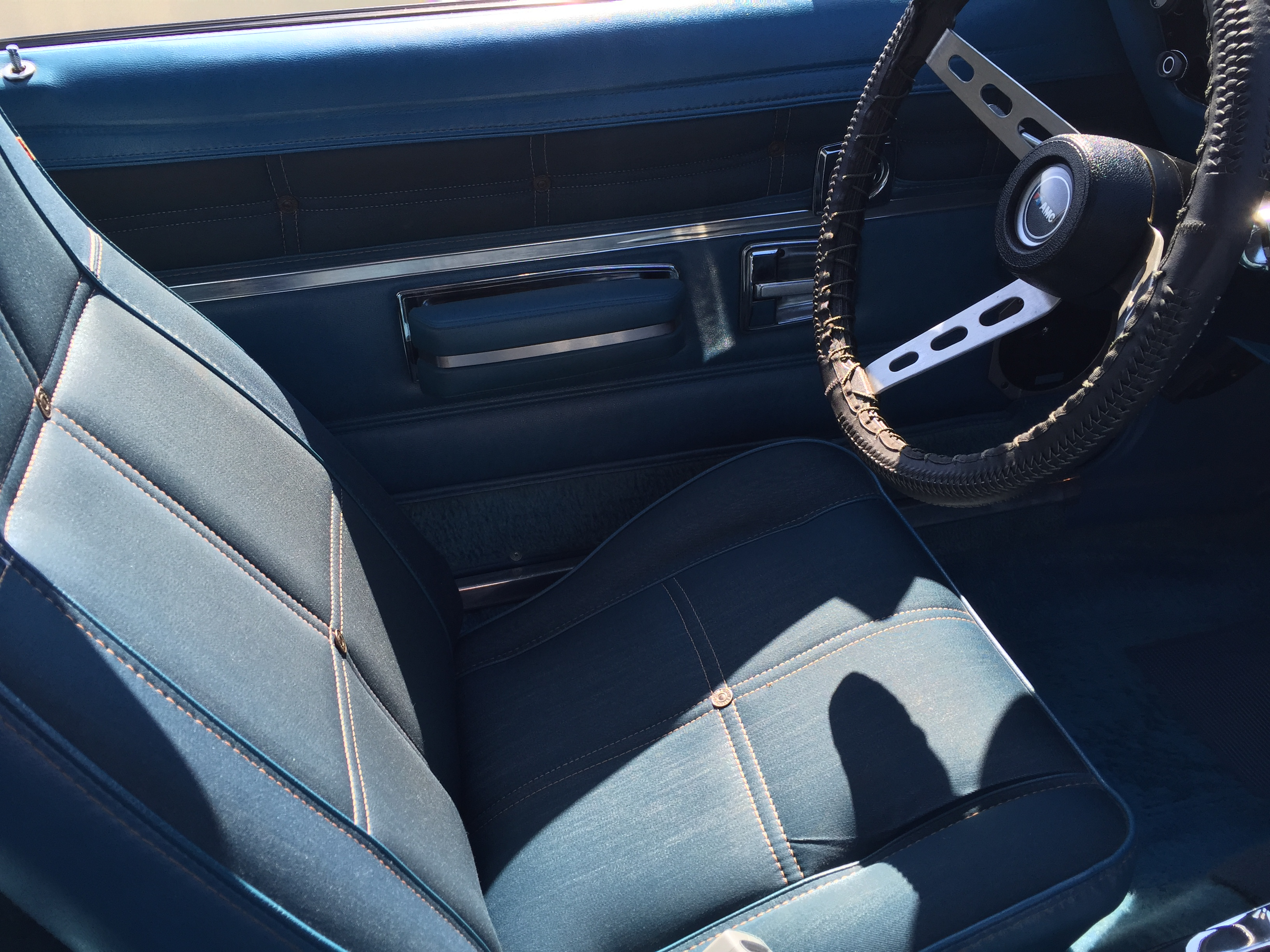 1978 AMC AMX, a compact sports coupe built by American Motors Corporation. Based on the Concord hatchback model, this design version of the performance AMX was available only for the 1978 model year. The car did not have Concord badges or identification. The AMX featured the front fascia with single round headlights, a flush grille, round amber parking lights, and a "power bulge" hood from the AMC Gremlin. The wire headlamp covers are aftermarket. The 1978 AMX colors were limited to white, red, yellow, silver, or a special version in "Classic Black." This car features the "Quick Silver" metallic paint, and has been customized with the addition of the gold body side stripes that came only on AMXs finished in black. This car has AMC's optional polished forged aluminum 5-spoke road wheels, as well a the optional decals (from the previous year Hornet) on the rear deck and hood. The interior has the optional "Levi's" Trim Package upholstery. Picture taken at the American Motors Owners Association (AMO) annual convention that was held July 2015 near Cleveland, Ohio.